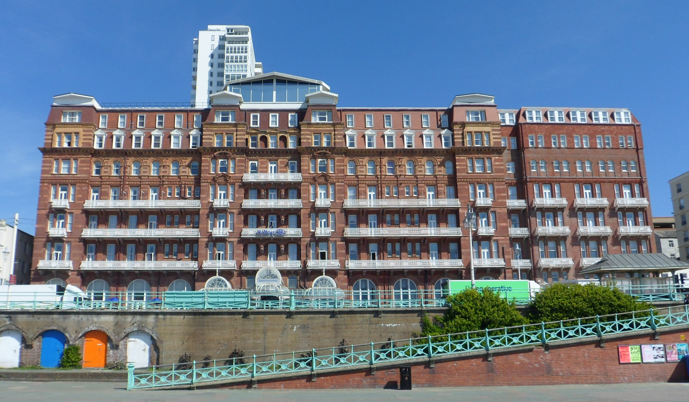 The Hilton Metropole Hotel, King's Road, Brighton, City of Brighton and Hove, England. A large hotel (the United Kingdom's largest provincial hotel when built in 1890) and conference centre on Brighton seafront. Alfred Waterhouse was the designer.